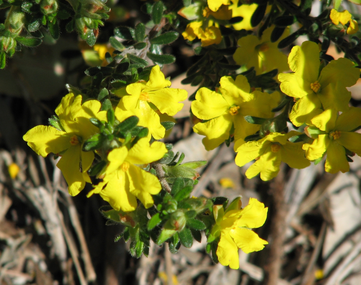 Hibbertia sericea (cultivated, labelled) Geelong Botanic Gardens, Victoria, Australia